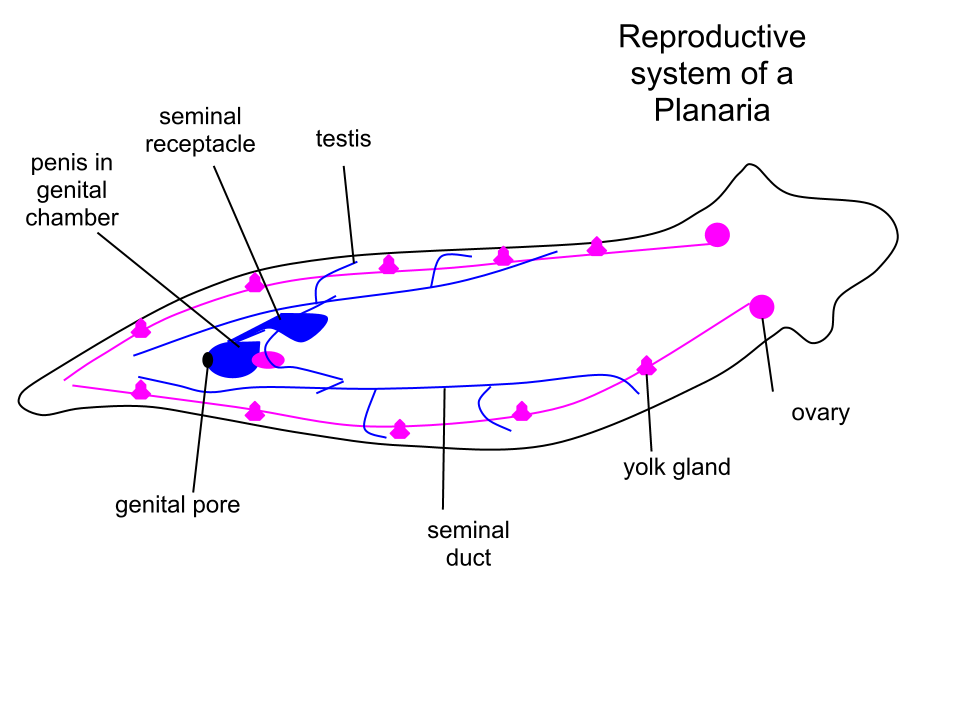 Planaria reproductive system diagram.